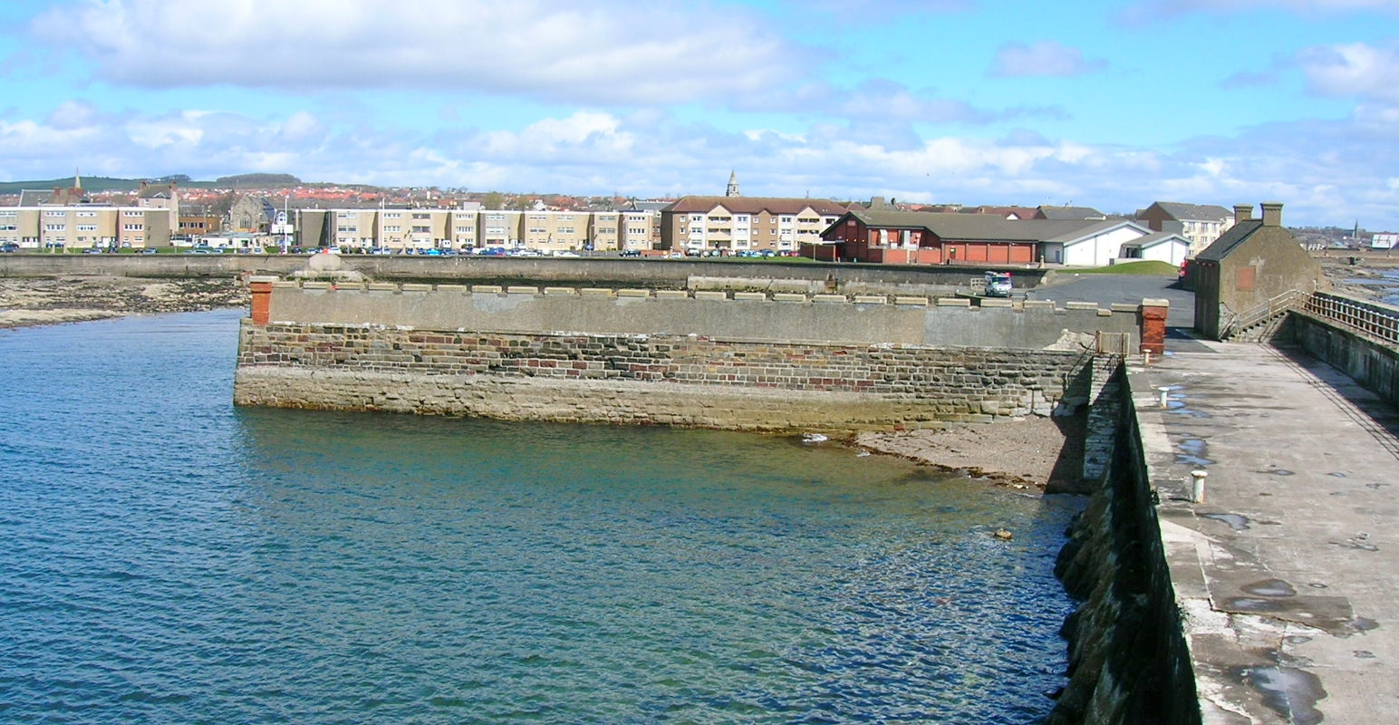 Saltcoats outer harbour and coal dock, North Ayrshire, Scotland